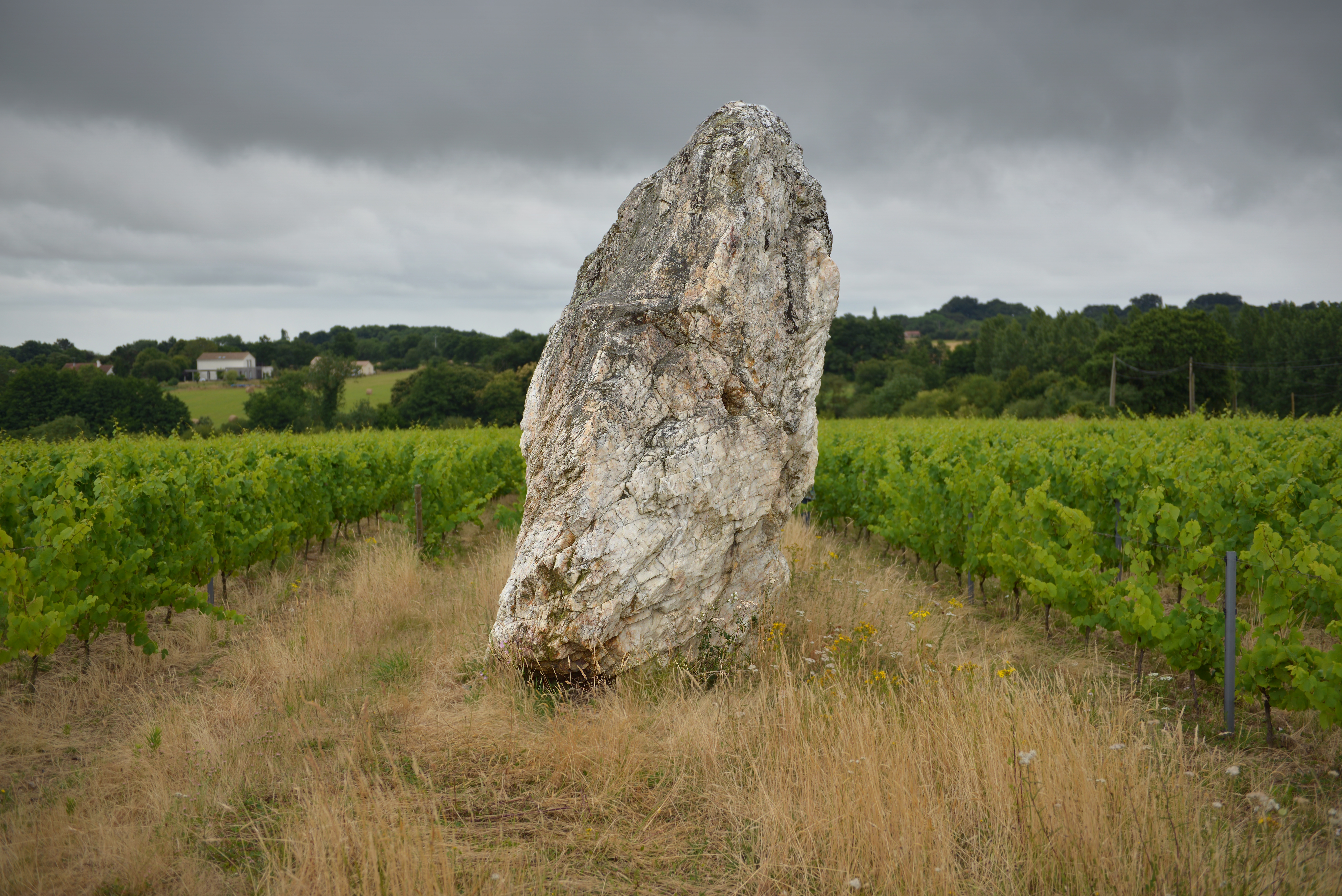 Menhir of "Pierre blanche", Oudon, western France, 2015.